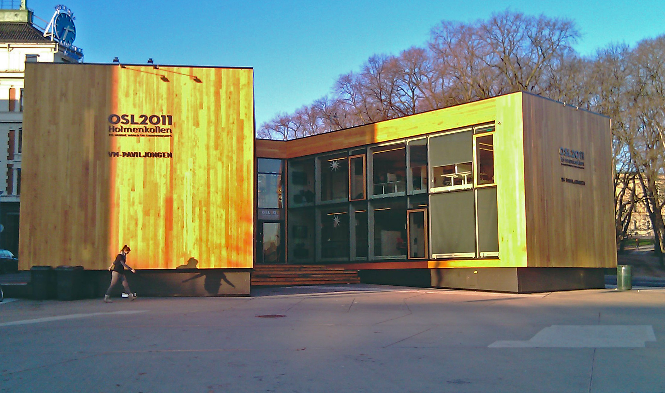 VM-paviljongen for FIS Nordic World Ski Championships 2011. Located at 7. juni-plassen in Oslo, Norway. For promotion of Holmenkollen, World Ski Championship and Oslo as a winter capital.